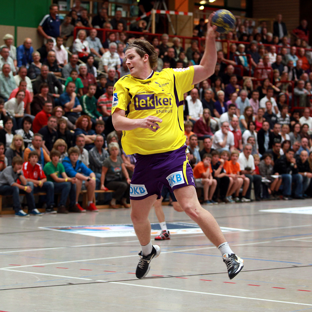 Rúnar Kárason from Füchse Berlin, on August 14th, 2010 in Ehingen (Germany).